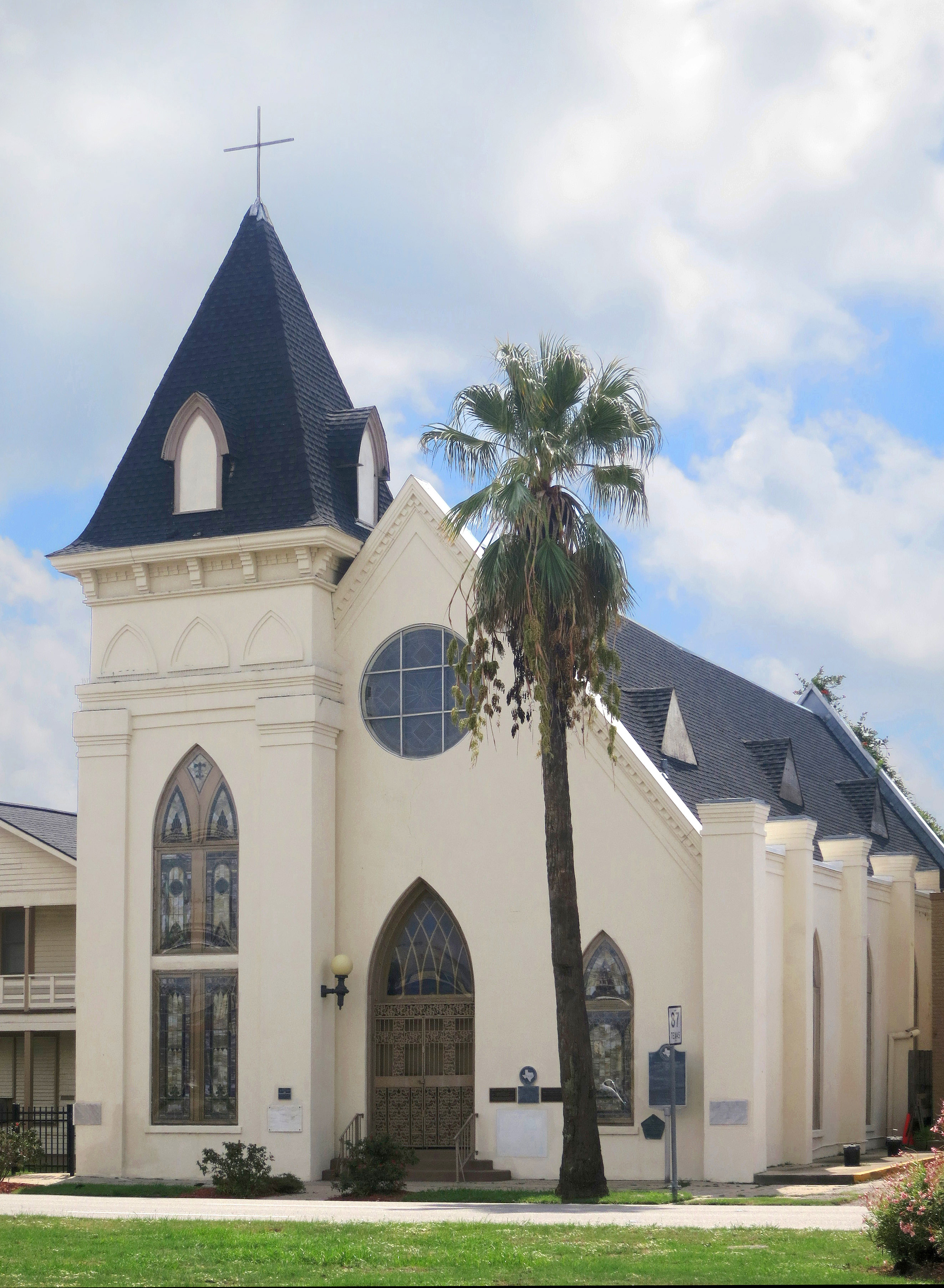 Trustees of the Methodist Church purchased this lot in 1848 as a worship site for Black slaves. Meetings were held outdoors until a building was erected in 1863. At the end of the Civil War (1865), ownership of the property was transferred to the recently-freed Blacks, who organized the First African Methodist Episcopal Church in Texas. It was later named in honor of the Rev. Houston Reedy of Philadelphia, Pennsylvania, who served as the first pastor. The church survived several natural disasters, beginning in 1875, when the sanctuary was damaged in a storm. It was destroyed in 1885 by a fire that burned a large area of the city. Finished in 1887, the present structure was restored after the destructive hurricane of 1900 and repaired again in 1947 and 1957. (Location N 29° 18' 2.329" W 94° 47' 20.685")